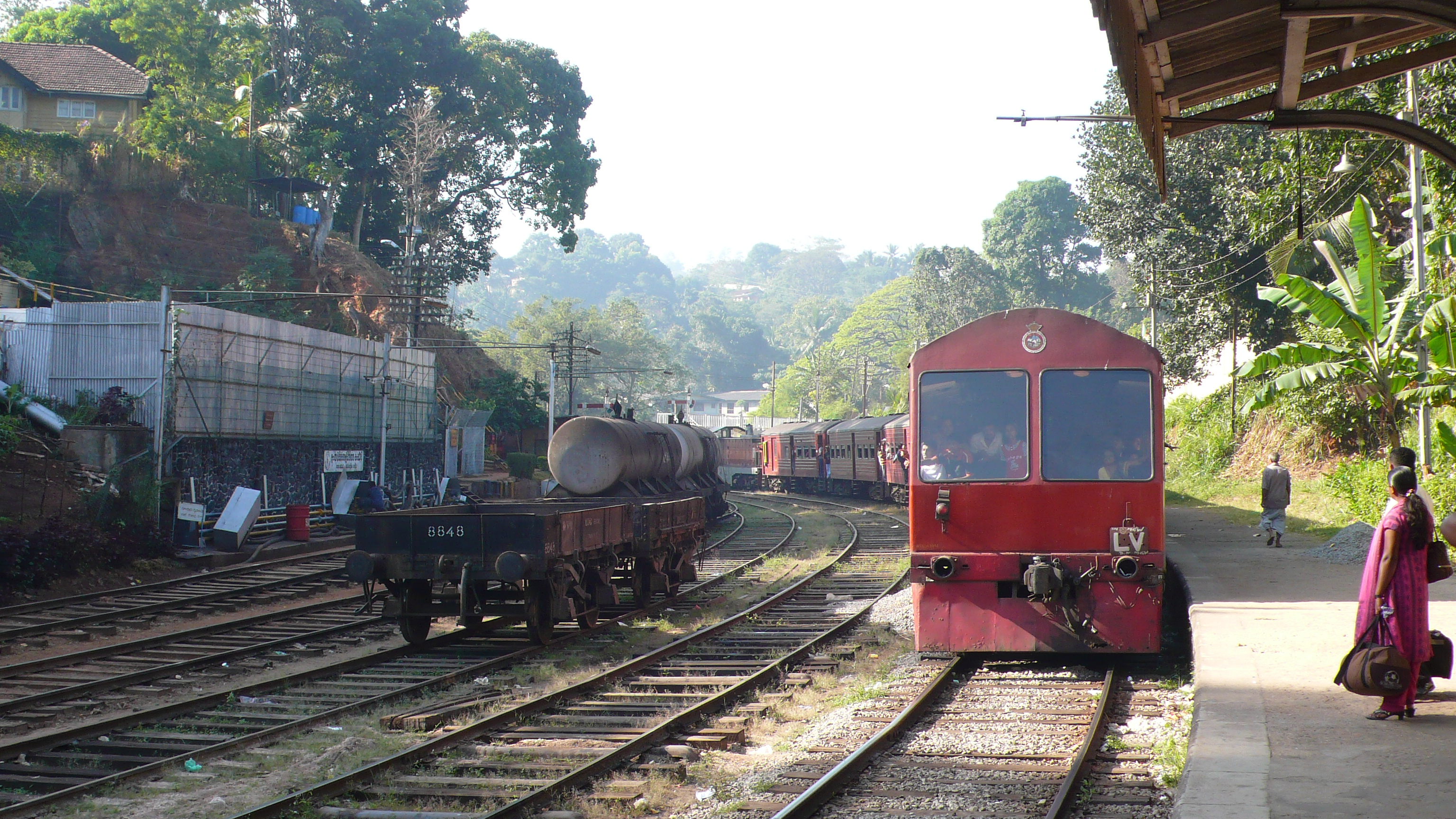 Getting on the train was a bit of a challenge. First the train was going the opposite direction as the signs indicated (evidently the train pulls into the station one way and then leaves that same way). There were no signs on the train and there were no train station personnel to assist and there was no intercom announcing the arrival. It was pretty much just ask and ask and ask until you felt pretty sure that it was the right train and then make a mad dash for the door to try to get on and secure a place.(Peradeniya Junction)